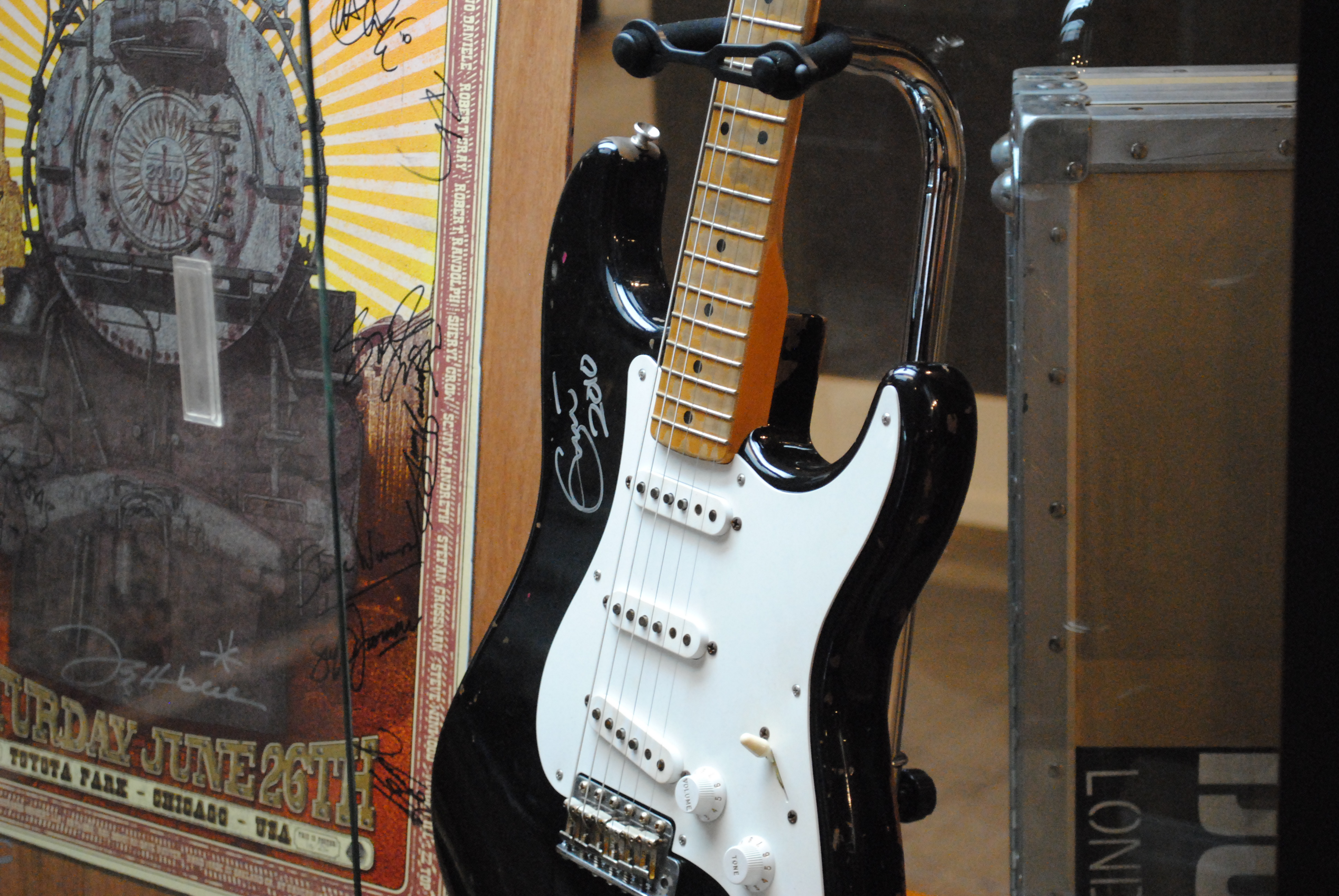 A 2006 Fender Stratocaster 'Blackie Replica' Model, Serial No. YS434, Custom Shop Tribute Series. 9 Mar 2011 13:00 EST New York, The Eric Clapton sale of Guitars and Amps in aid of the Crossroads Centre. Bonhams.